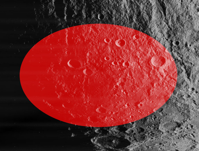 Oblique view of the Mendel-Rydberg Basin, on the moon, with the approximate extent of the basin highlighted in red.